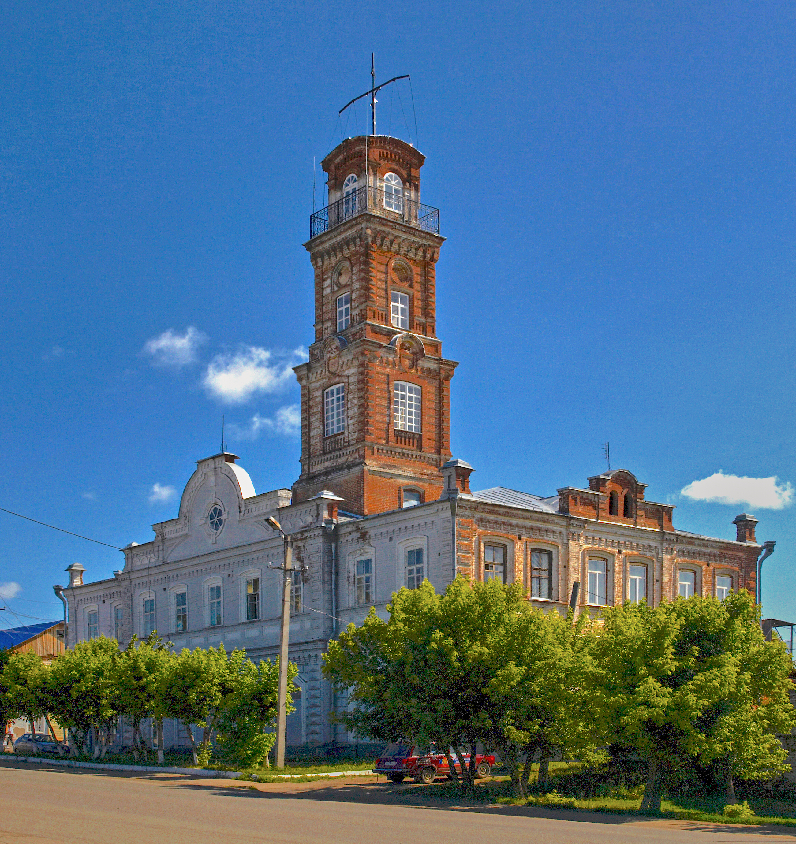 Firefighters Depot and Signal Tower in Sarapul (1887). Monument of architecture of Federal significance #1810035000